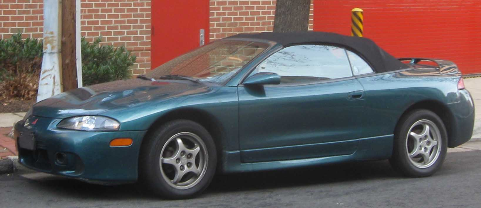 1997-1999 Mitsubishi Eclipse photographed in Alexandria, Virginia, USA.